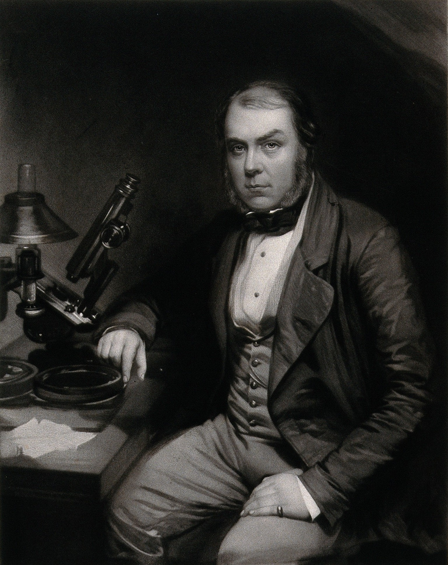 John Thomas Quekett, a distinguished histologist, seated by a microscope. Mezzotint by W. Walker, c. 1850, after E. Walker. Iconographic Collections Keywords: William Walker; Elizabeth Walker; John Thomas Quekett